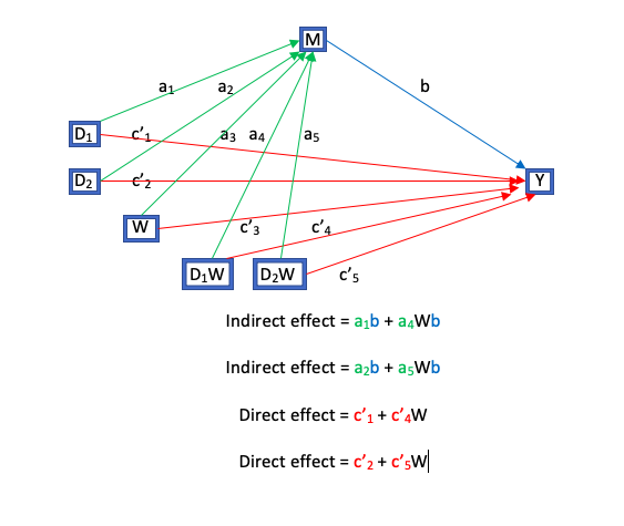 A diagram showing both the relative indirect and direct effects of X on Y